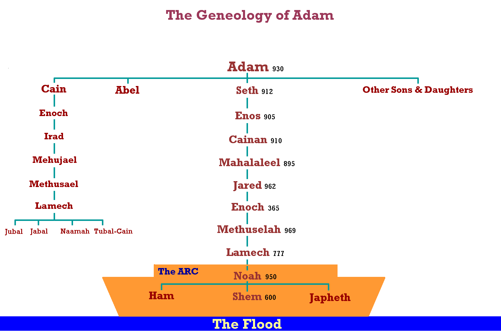 Diagram showing the genealogy of Adam to Noah as recorded in the Holy Bible. includes cain abel seth Enoch Enos Cainan Jared Lamech Noah Ham Shem Japheth Methusalah Mahalaleel the flood